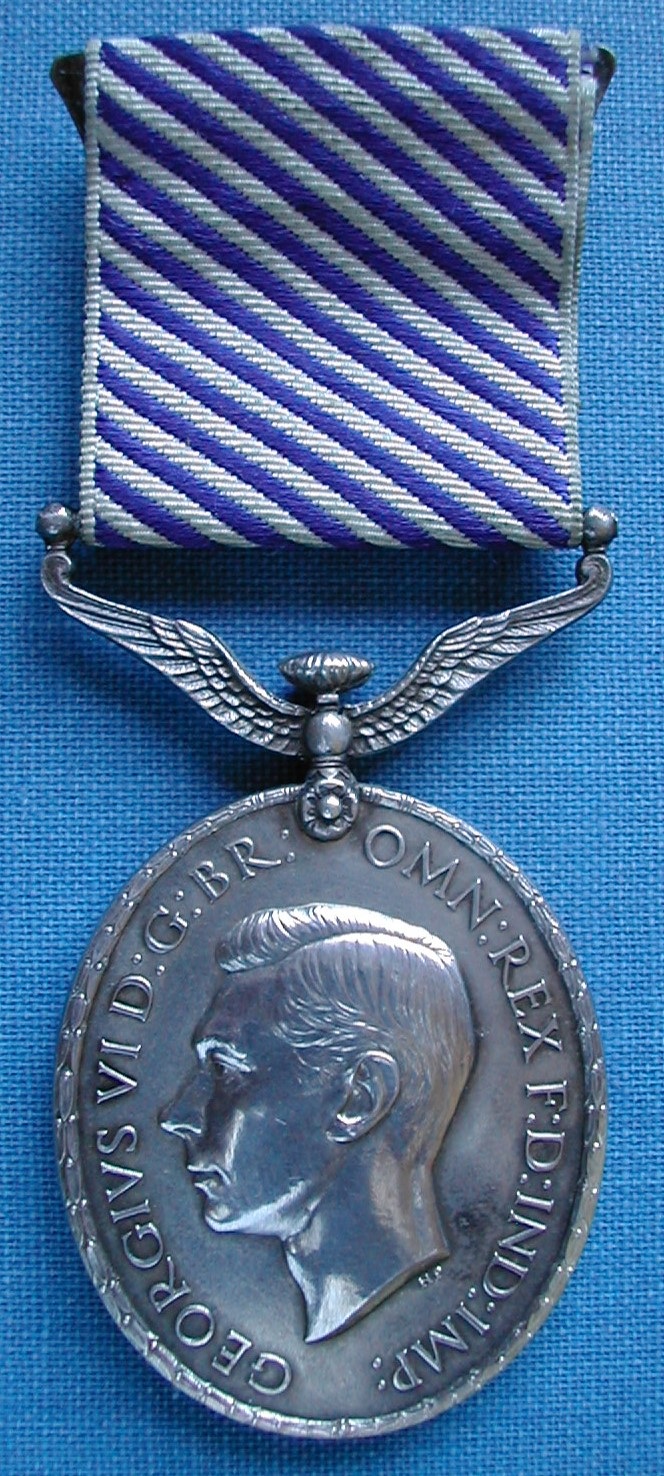 DFM-GVIR